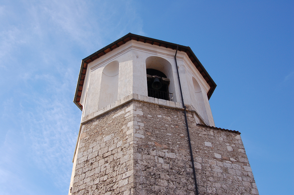 Church of San Pietro a Coppito in L'Aquila: view of the tower